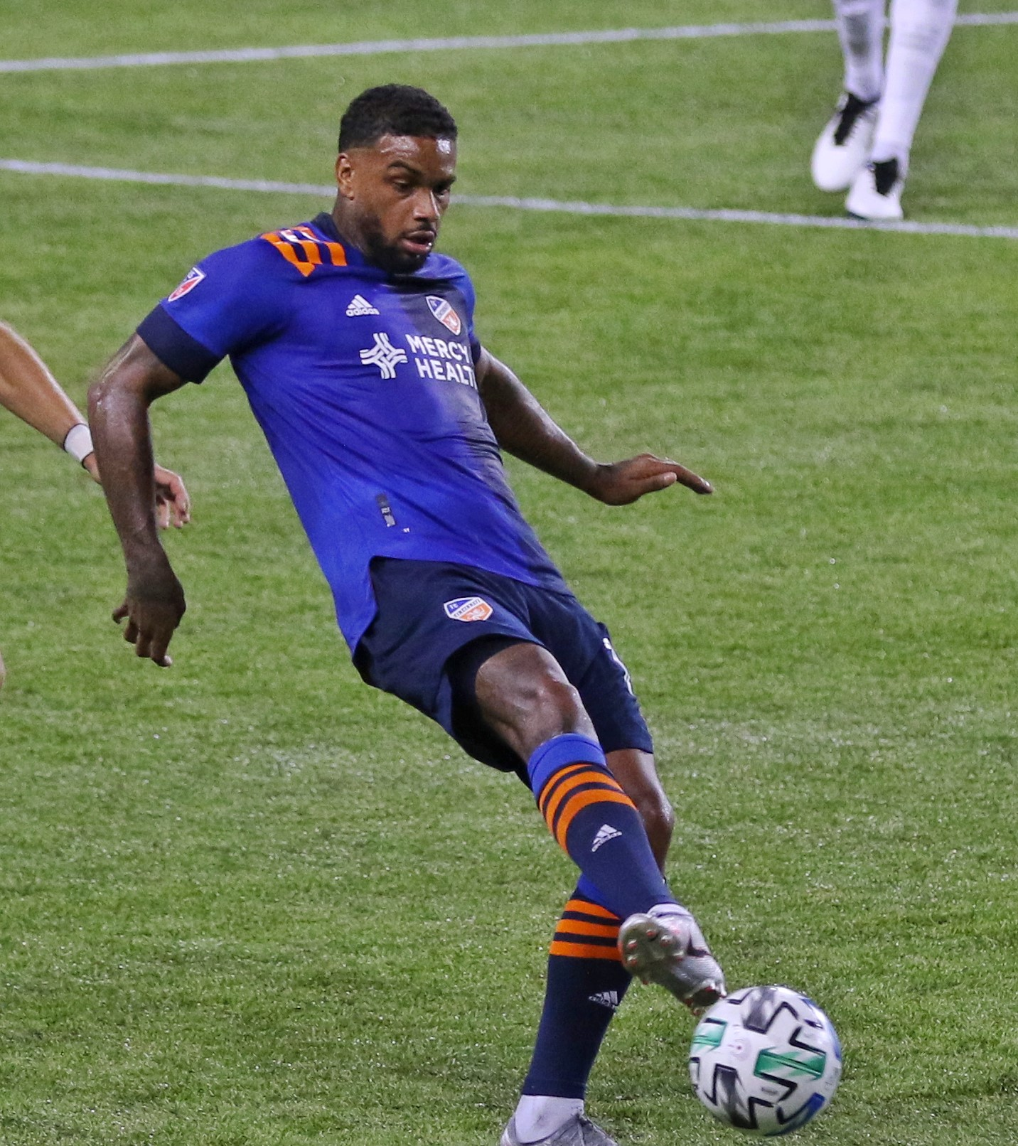 Jürgen Locadia playing for FC Cincinnati on Aug. 21, 2020.